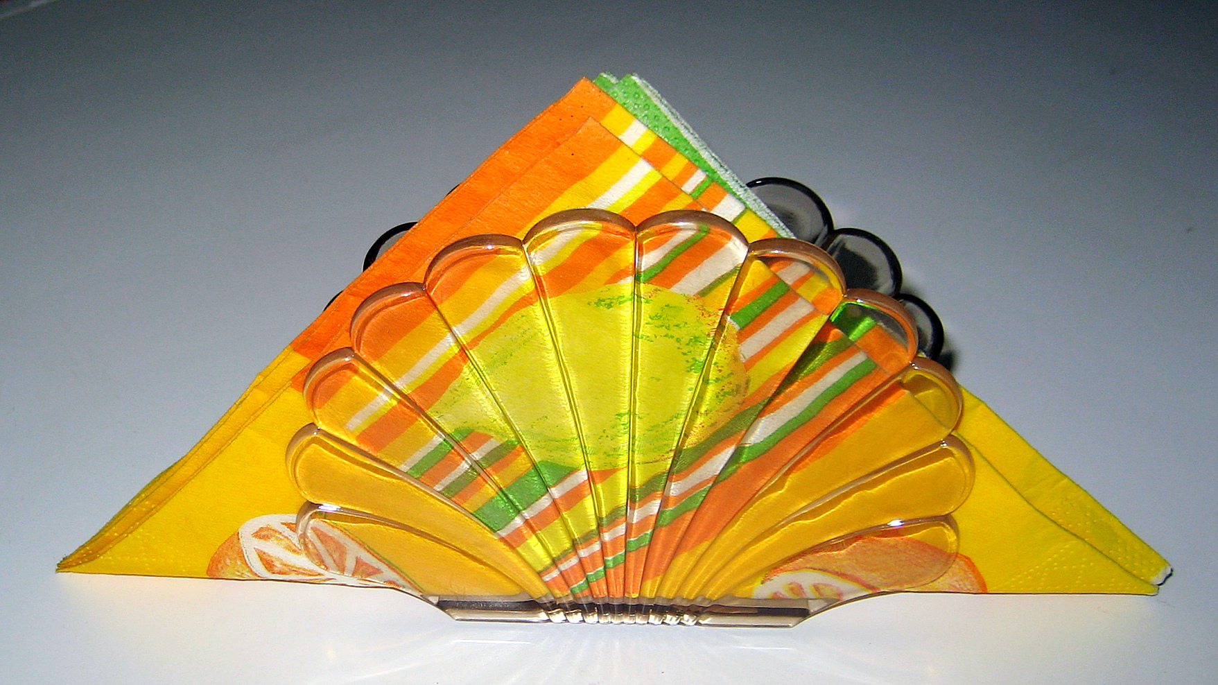 A napkin, serviette or face towelette is a rectangle of cloth used at the table for wiping the mouth and fingers while eating. It is usually small and folded, sometimes in intricate designs and shapes. The word comes from Middle English, borrowing the French nappe—a cloth covering for a table—and adding -kin, the diminutive suffix.